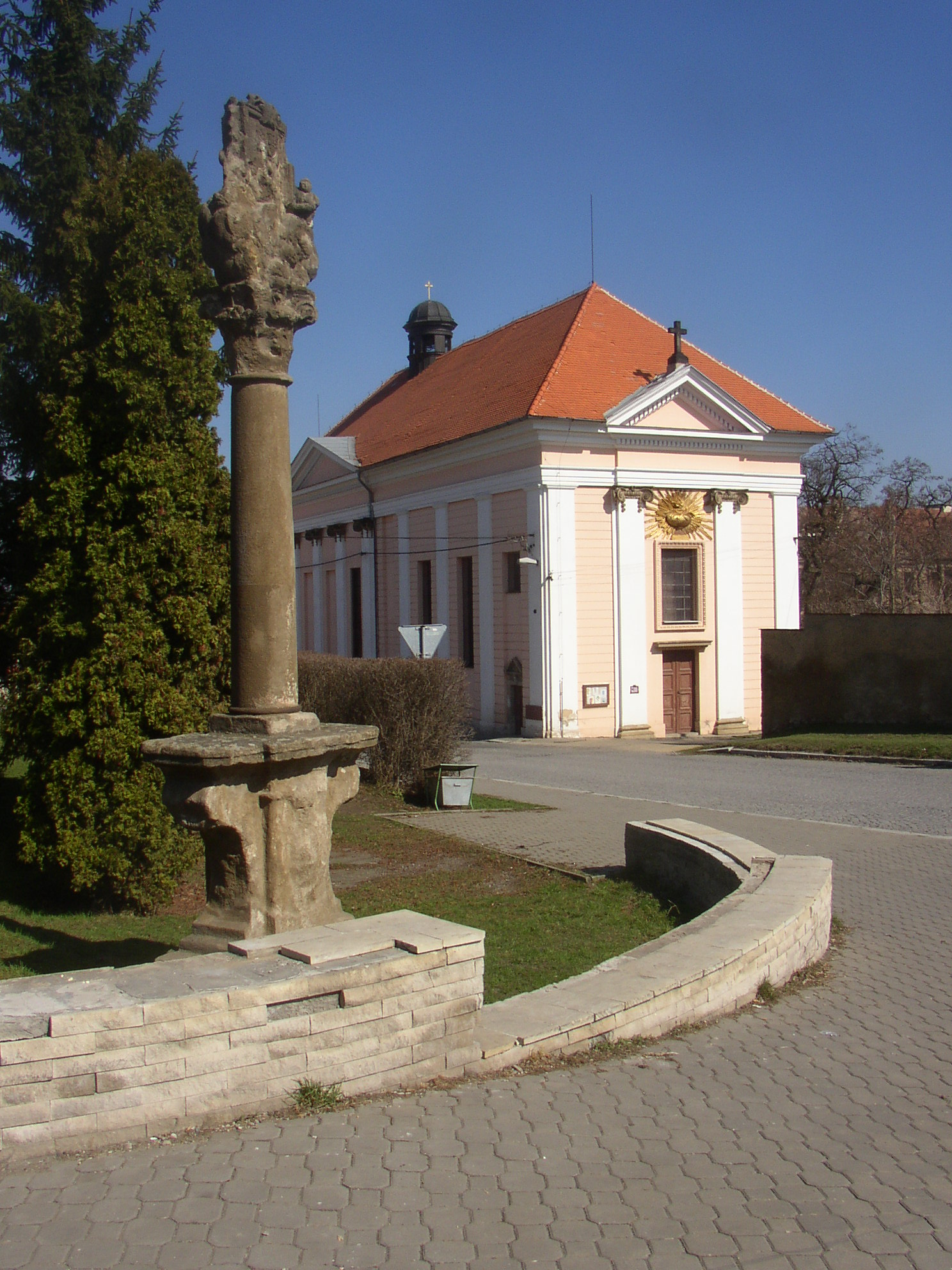 Church of Exaltation of the Holy Cross in Buštěhrad, Czech Republic. In the foreground an 18th century column with relief of Our Lady of Stará Boleslav.